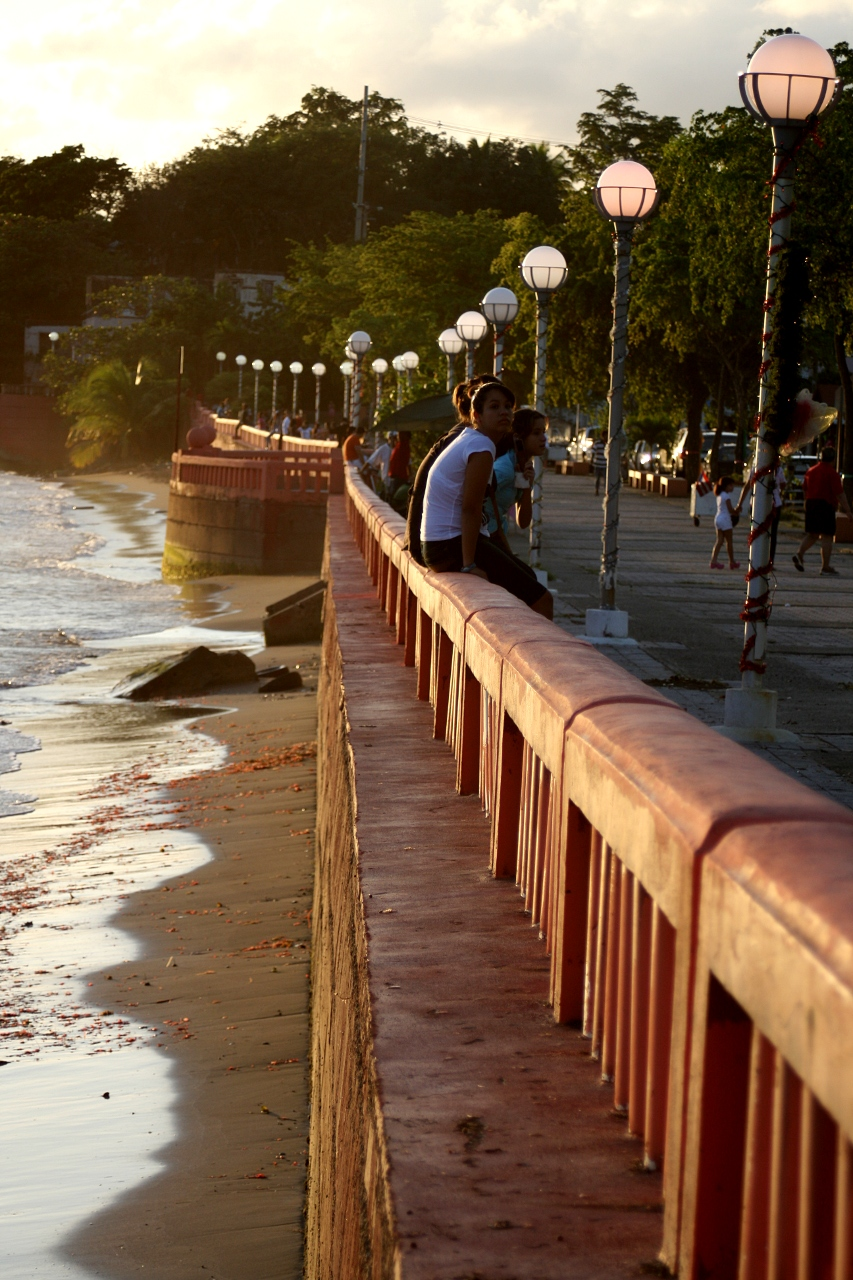 Beach, boardwalk, street lamps in Naguabo, Puerto Rico